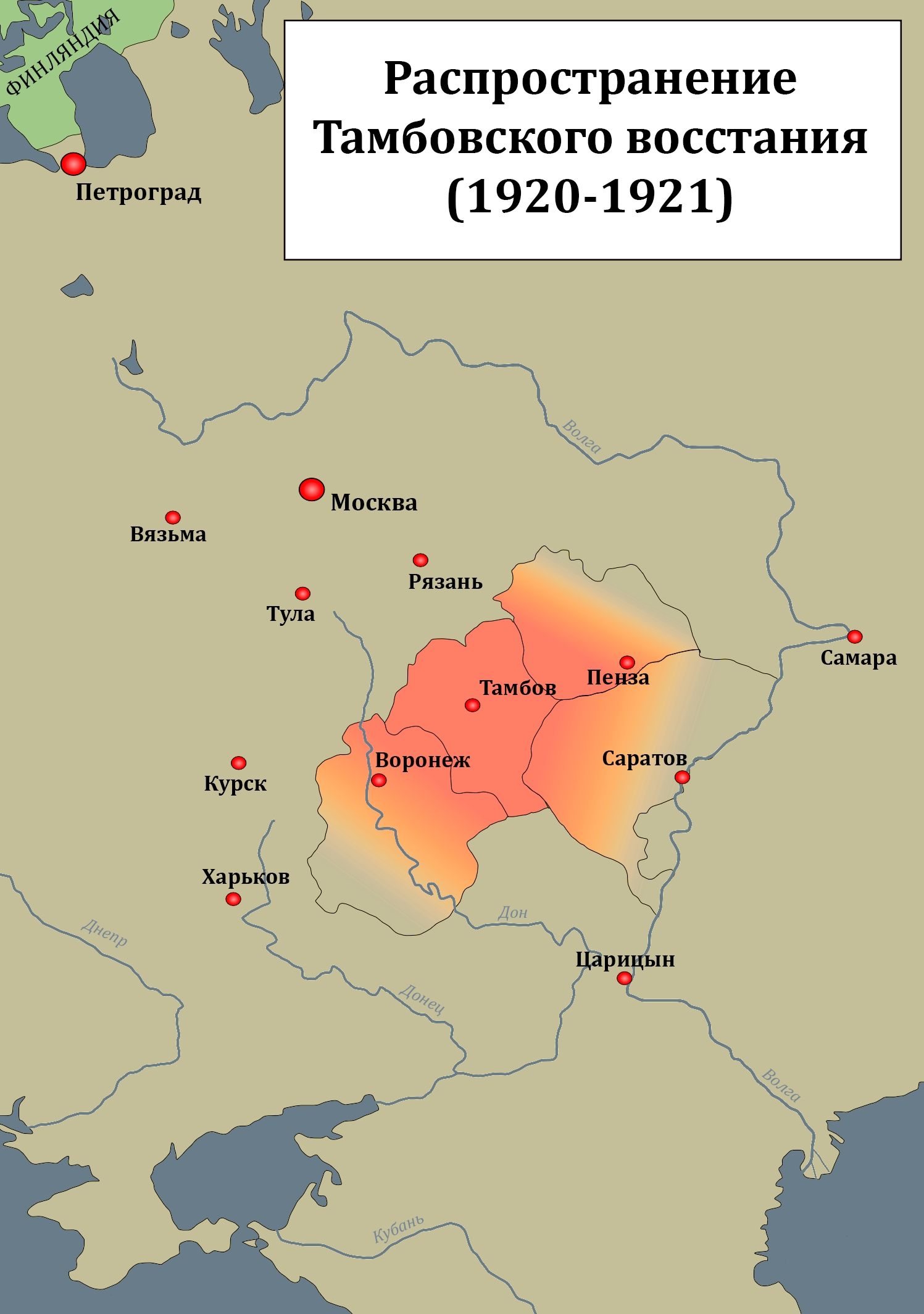 Map showing the main area of the Tambov Uprising in Russia 1920-1921 (in Russian).